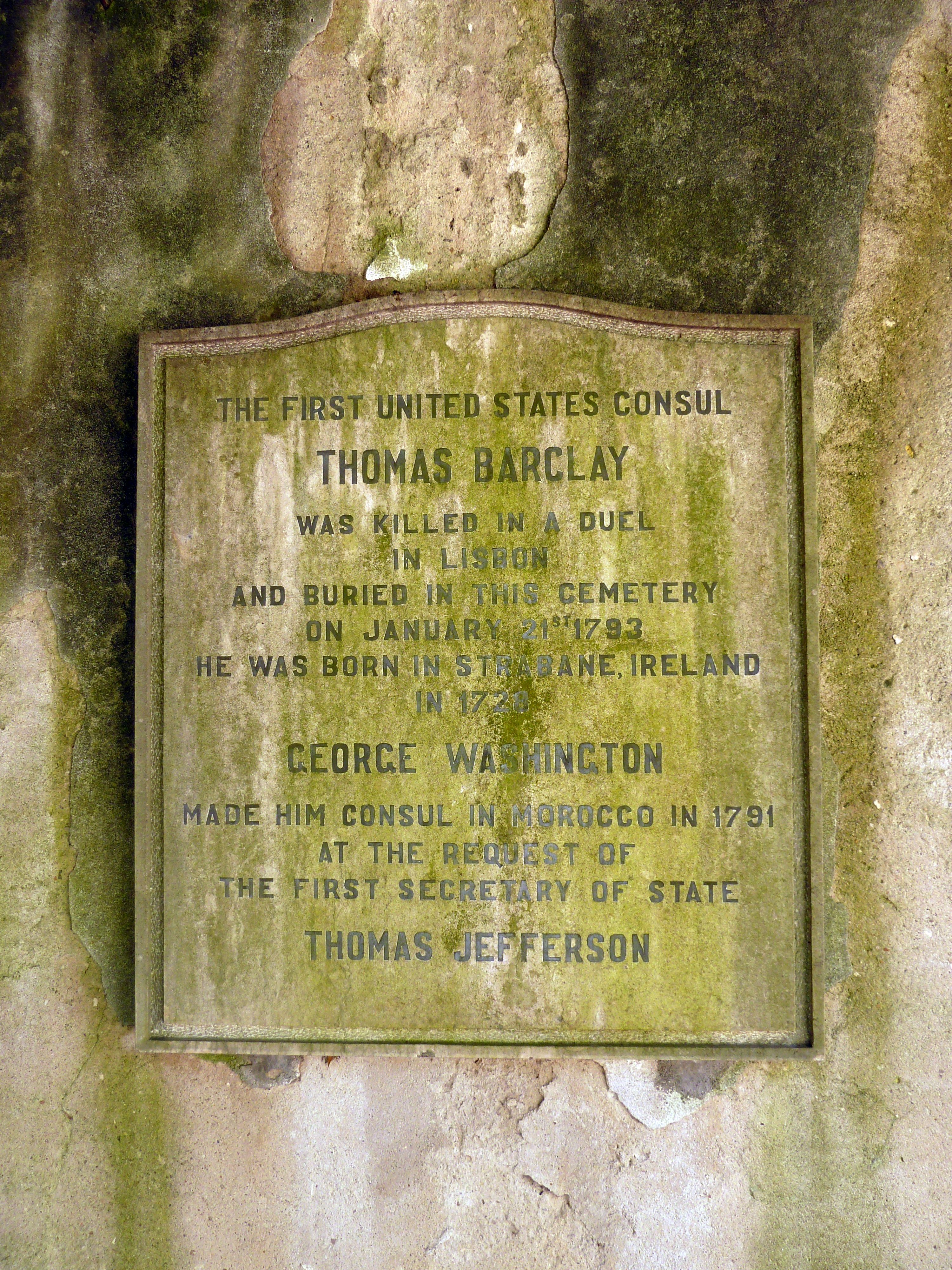 Grave of Thomas Barclay (1728-1793), first United States Consul in France, "killed in a duel in Lisbon" and buried in the English Cemetery in Lisbon (Portugal).